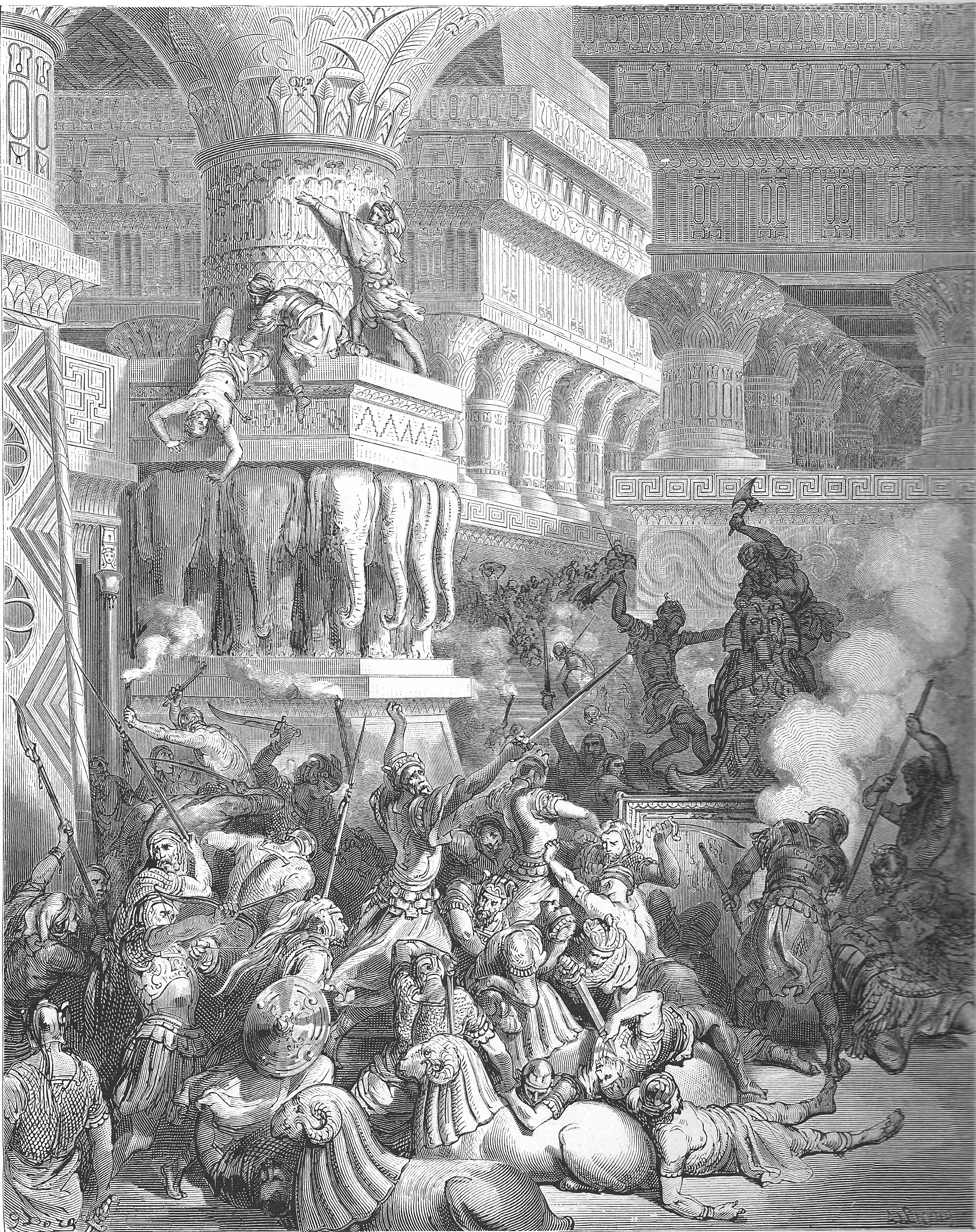 Jonathan Destroys the Temple of Dagon (1 Macc. 10:60-85)